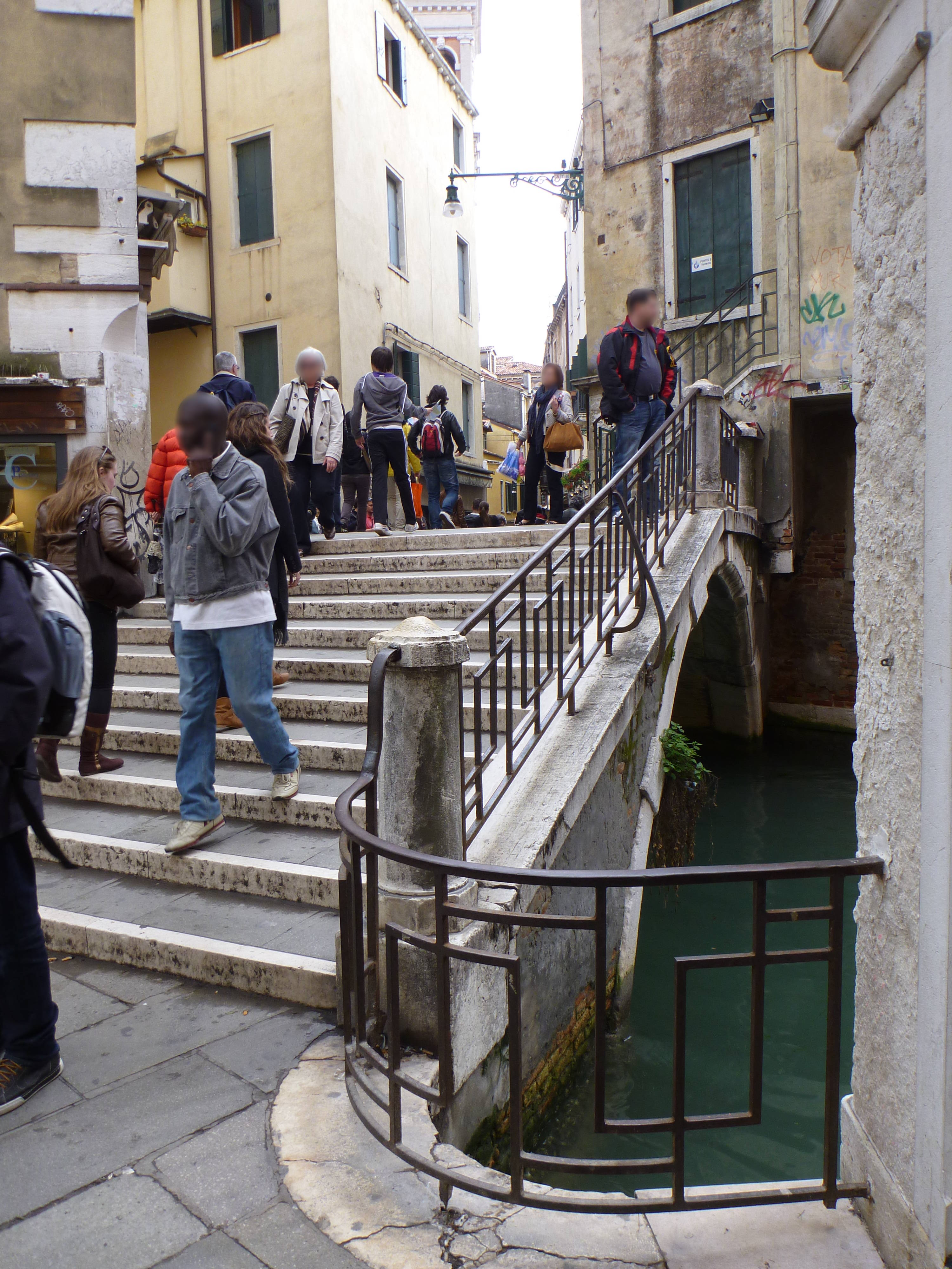 PONTE S.GIOVANNI GRISOSTOMO VULGO S.ZUANE GRISOSTOMO, Canaregio (Venice)